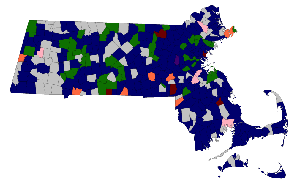 This File Shows the Results of the Green-Rainbow Party Presidential Primary in 2008